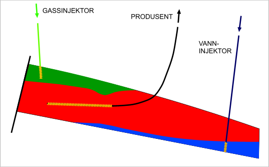 Oil reservoir with producer and two injectors